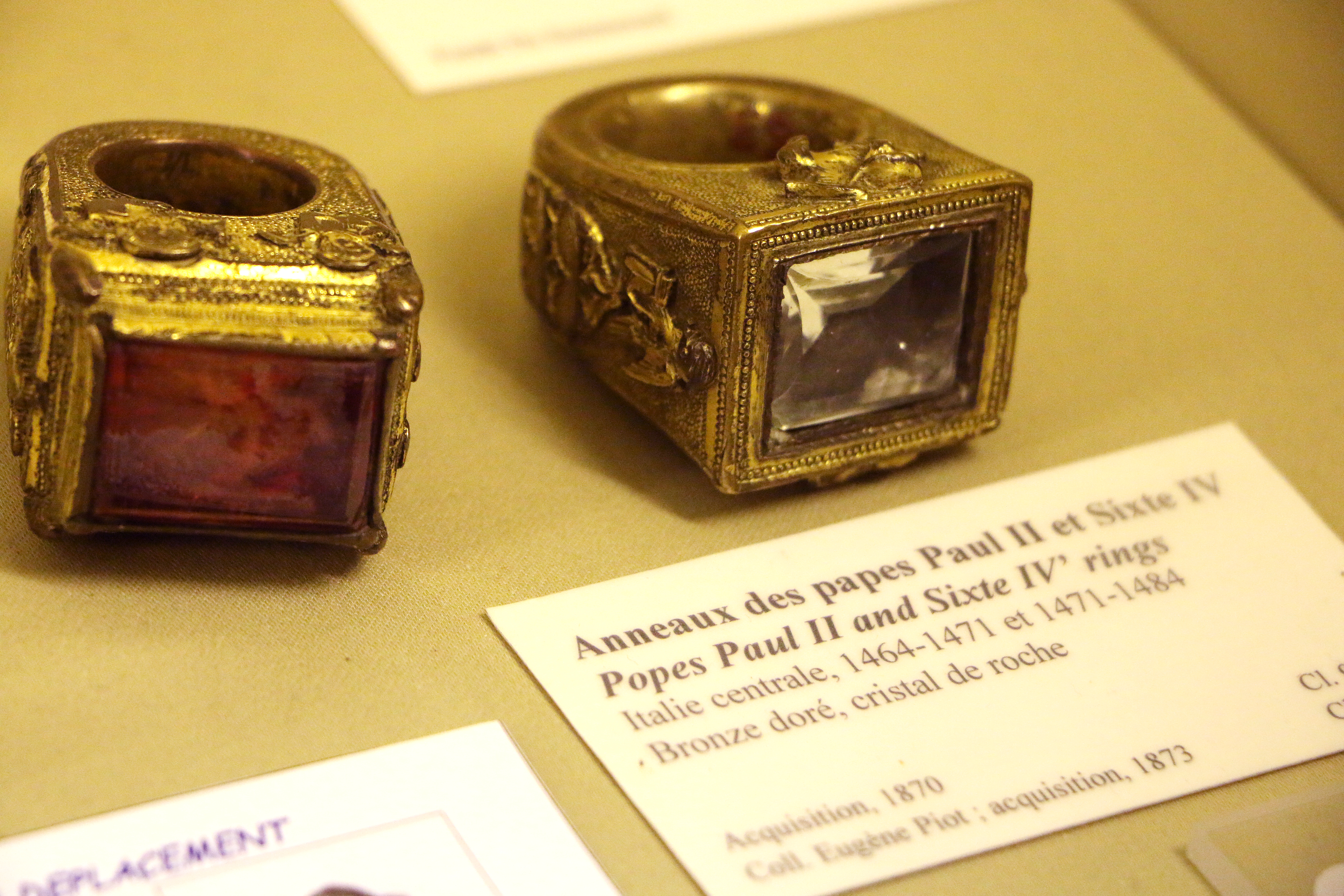 From Musée de Cluny in Paris France - rings of Popes Paul II and Sixtus IV - Golden bronze and Quartz